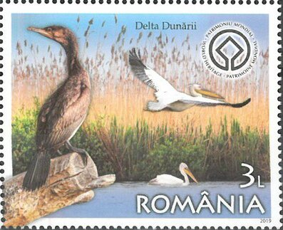 Danube Delta